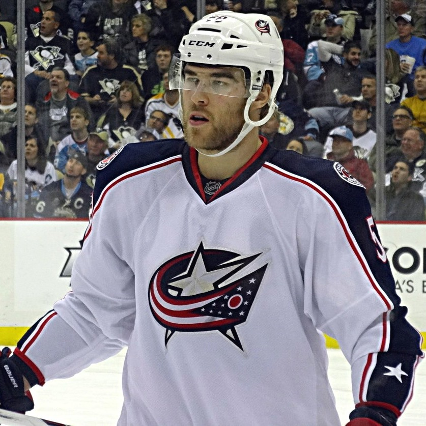 Columbus Blue Jackets defenseman David Savard during a game against the Pittsburgh Penguins, November 1, 2013, at Consol Energy Center in Pittsburgh, PA.